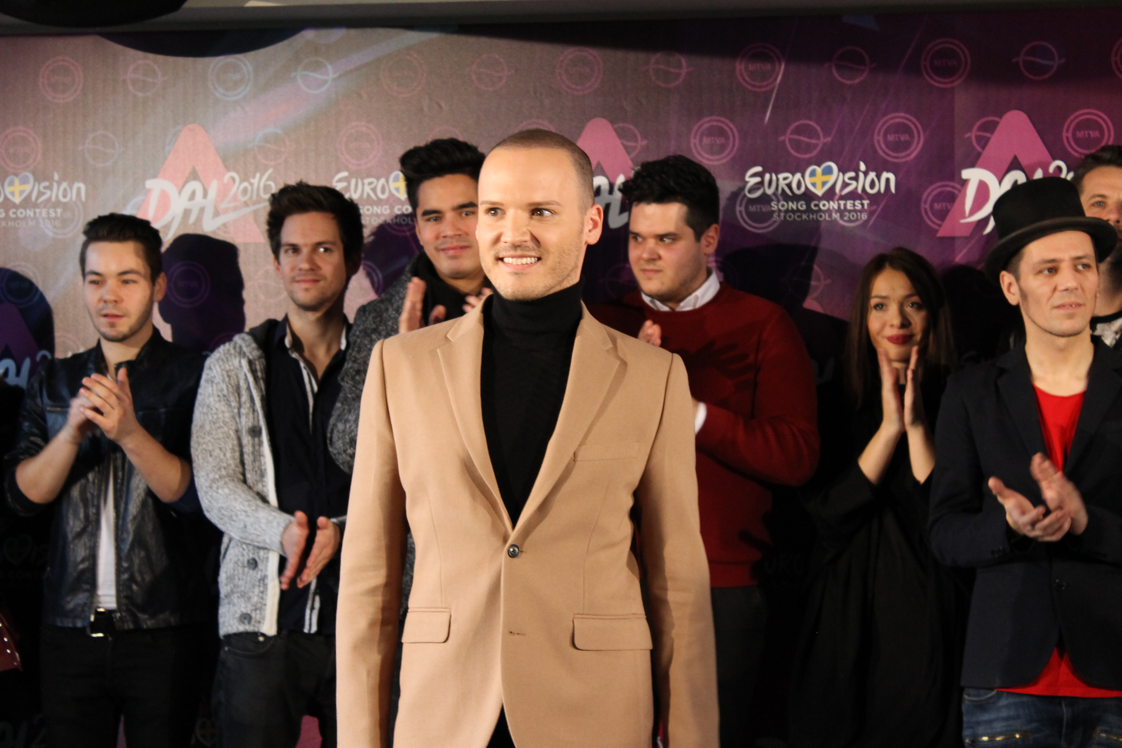 A Dal 2016 participant: André Vásáry